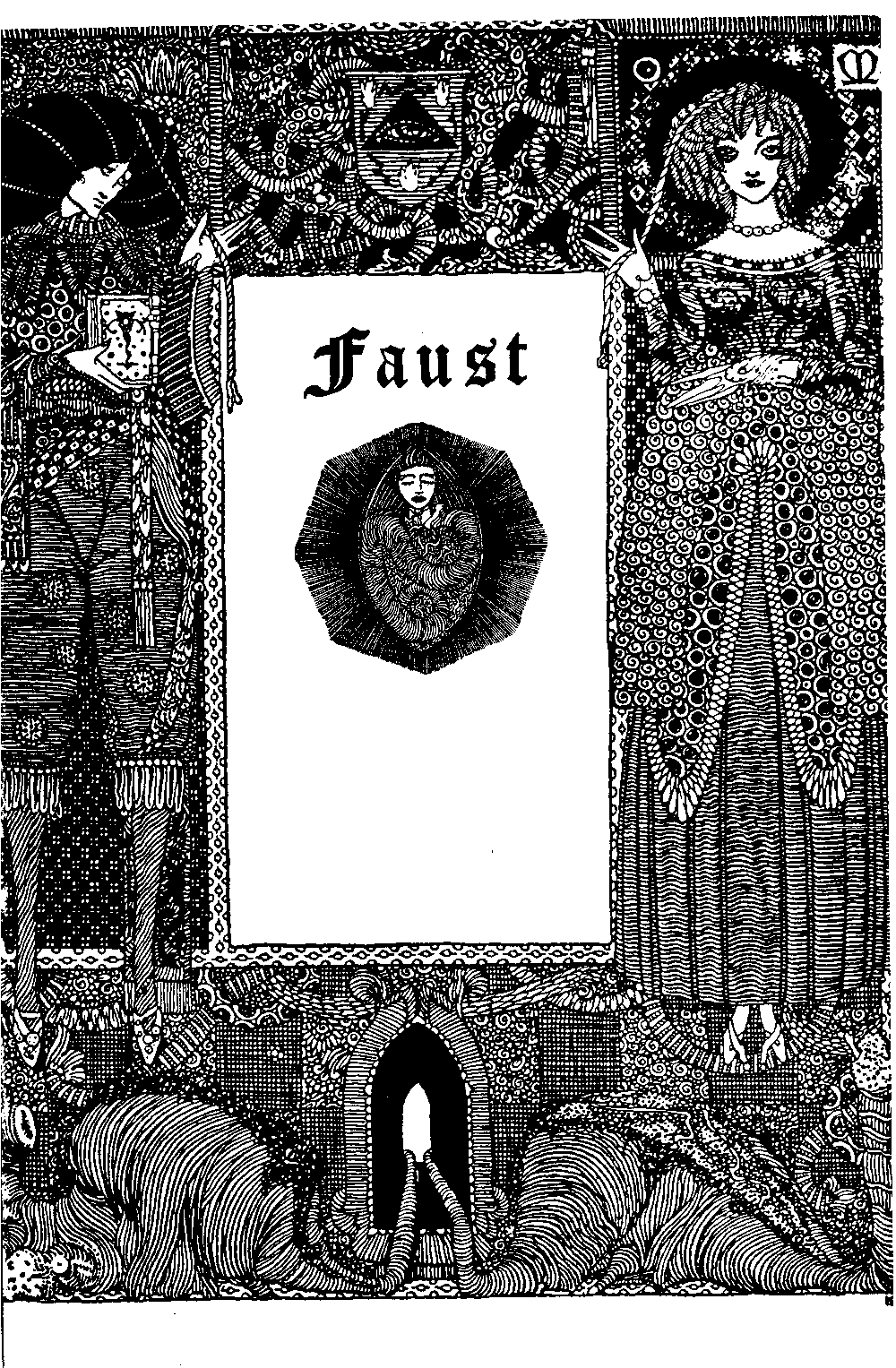 Page 001 (cover) of von Goethe's Faust, translated by Bayard Taylor and illustrated by Harry Clarke.